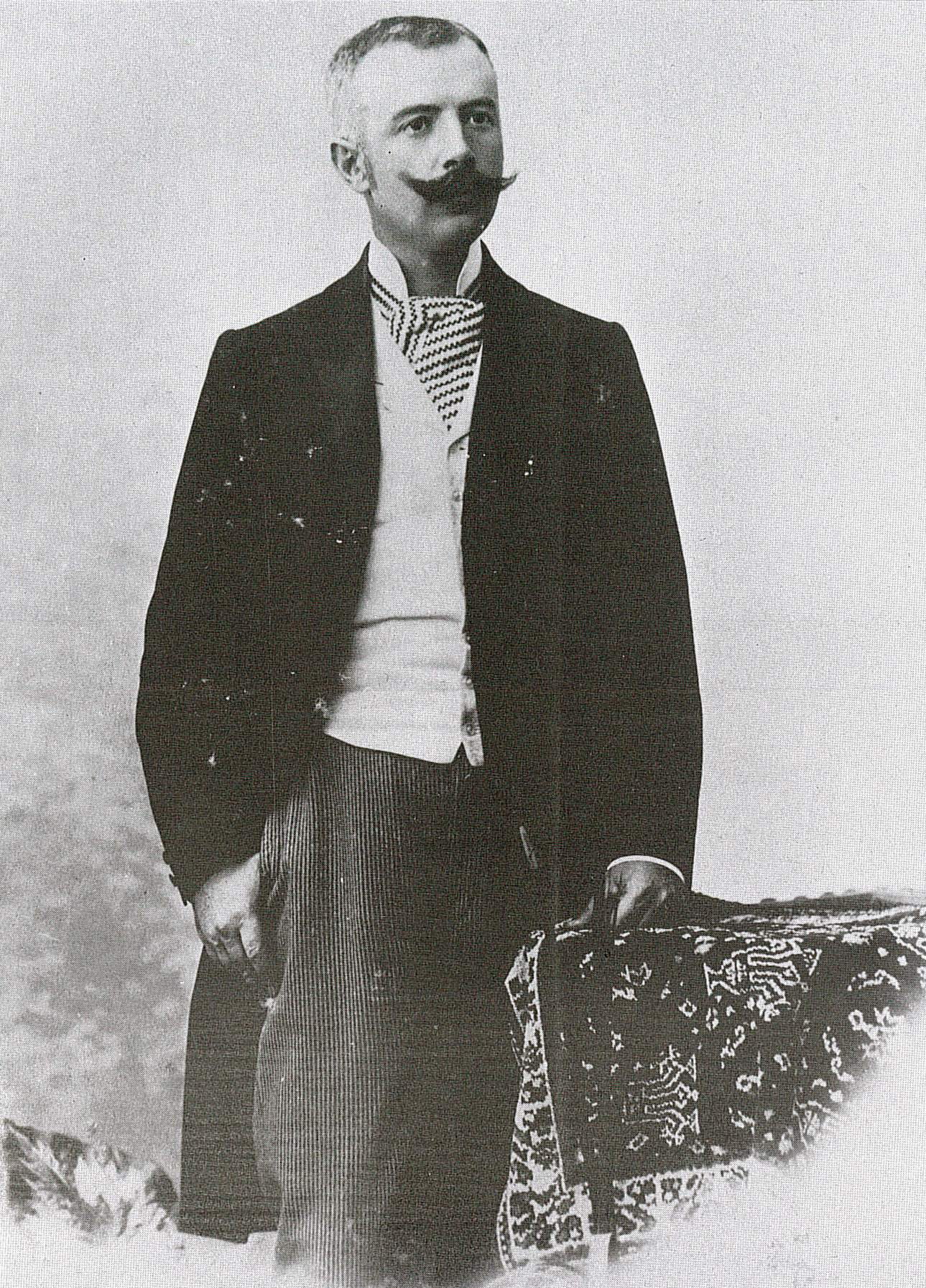 István Szentpáli in 1900, Mayor of Miskolc between 1902–1912 and 1917–1922